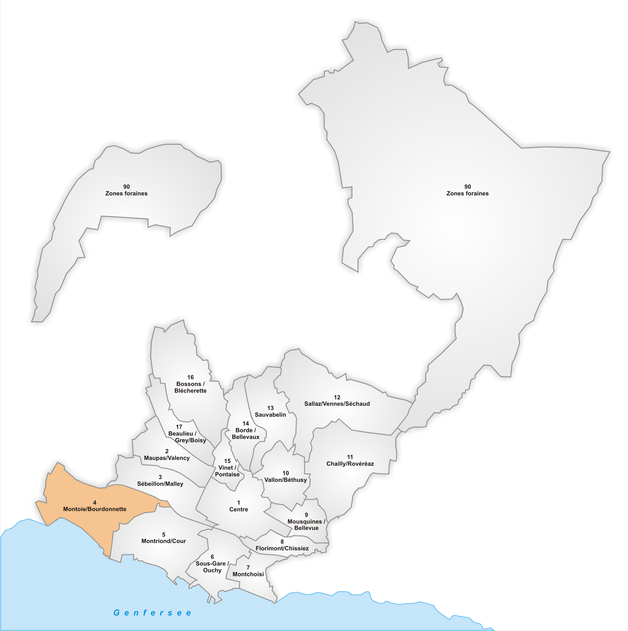 Lausanne Quarter 4